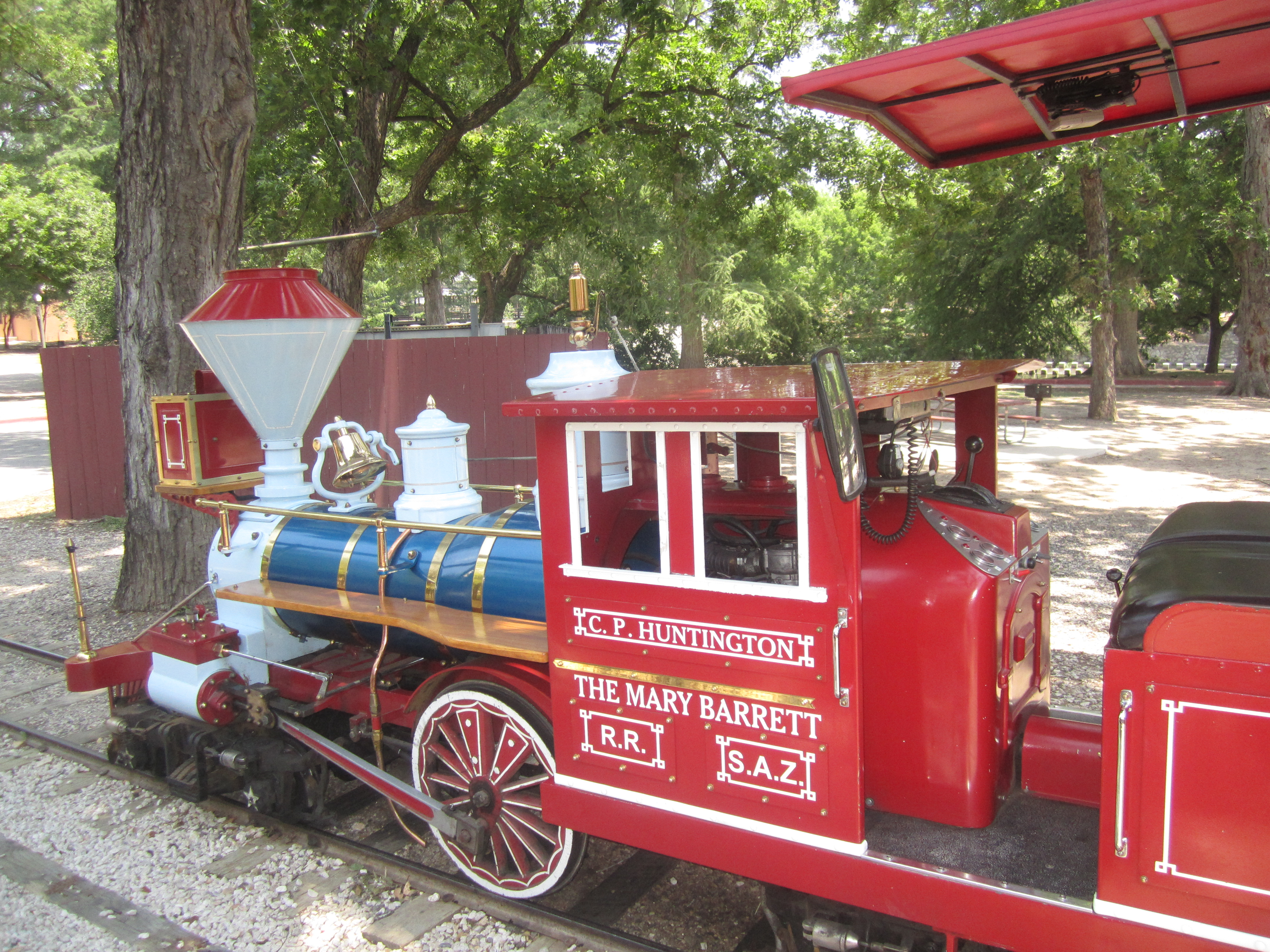 I took photo of train engine at San Antonio Zoo, with Canon camera.